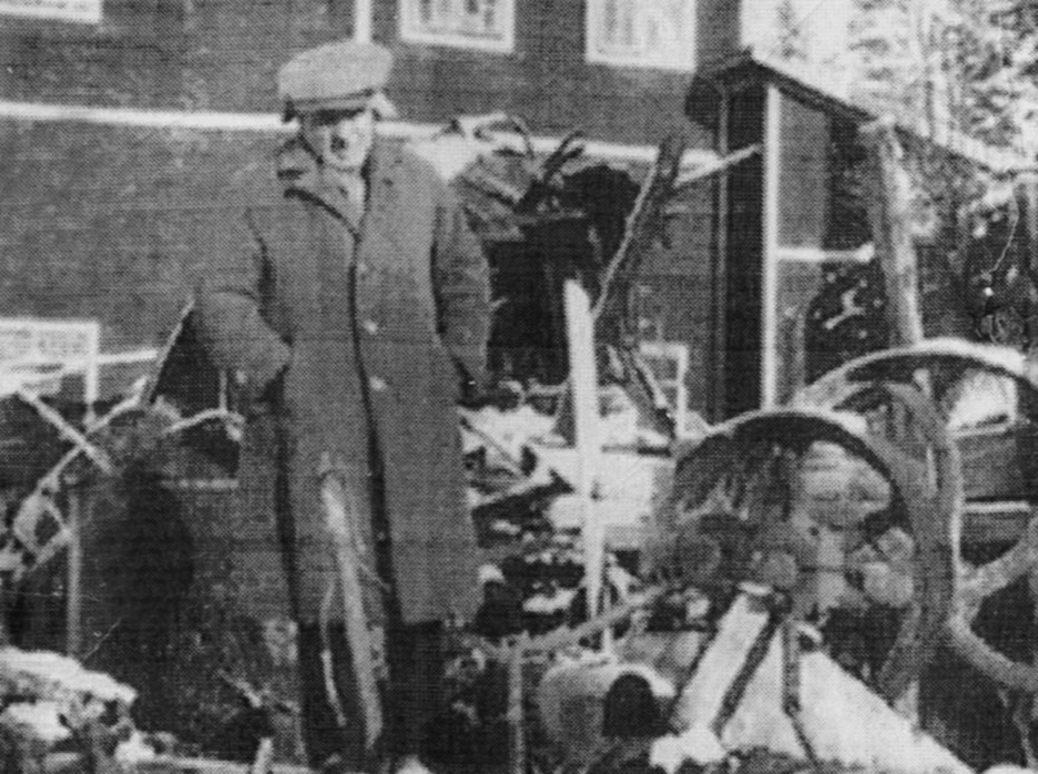 Lekombergs gruva branden 1931, chefen Herman Henneman på plats för att se skadorna